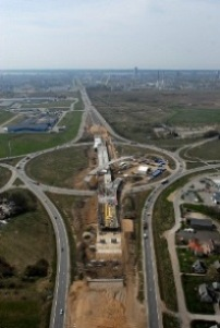 Jakai